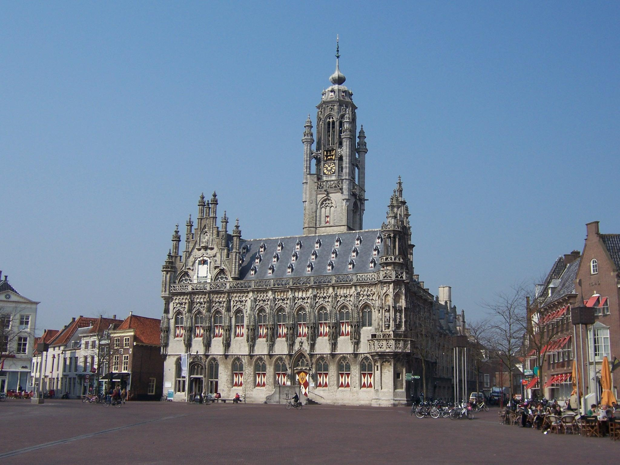 Middelburg, Zeeland, The Netherlands: town hall